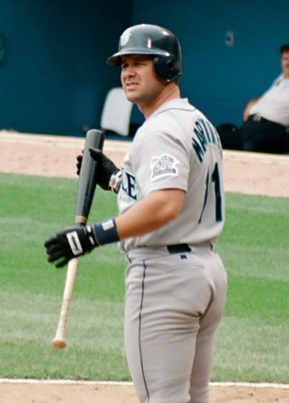 Seattle Mariners player Edgar Martinez.